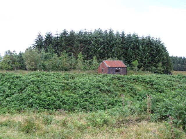 Shepherd's Hut Shepherd's hut near Gunstone.